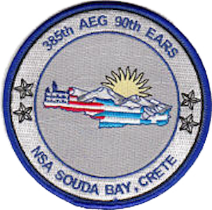 Emblem of the 90th Expeditionary Air Refueling Squadron